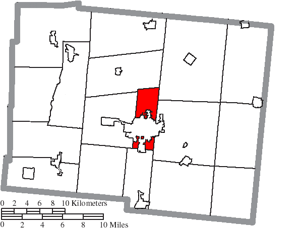 Map of the municipal and township boundaries of Logan County, Ohio, United States, as of the 2000 census, with the location of Lake Township highlighted. Township borders are shown only in unincorporated areas in order to differentiate incorporated and unincorporated areas more clearly.